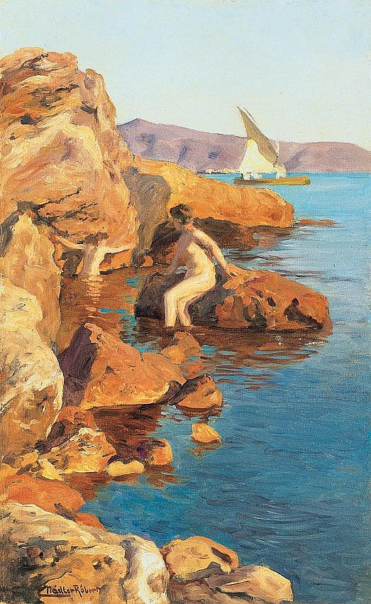 Reclining Nude at the Seaside (Dalmacia)